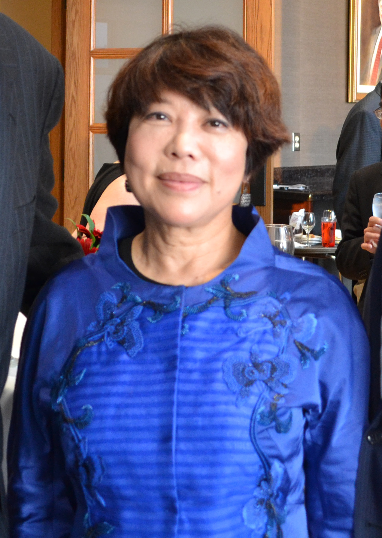 Photograph of Nancy Chang, chemist and recipient of the 2012 Biotechnology Heritage Award, presented at the Biotechnology Industry Organization (BIO) annual international convention, held June 18-21, 2012 at the Boston Convention and Exhibition Center in Boston, MA. Award co-presented by the Chemical Heritage Foundation.